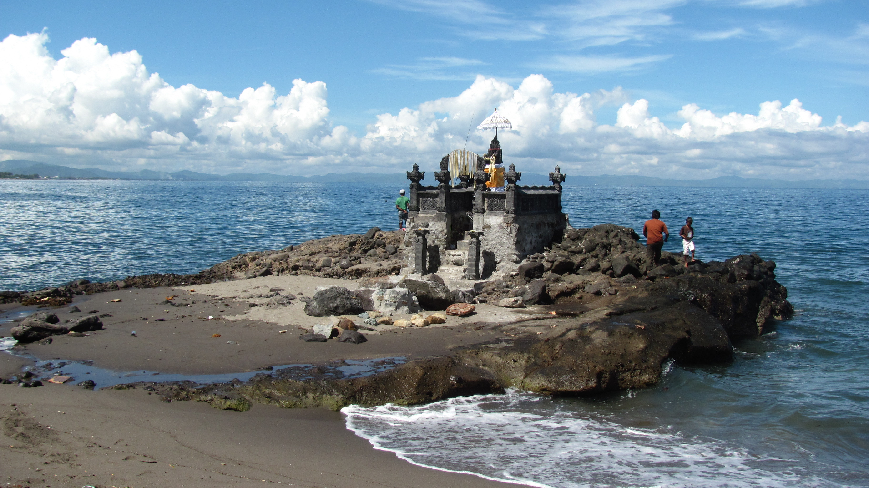 Hindu Temple, Senggigi, Lombok, Indonesia